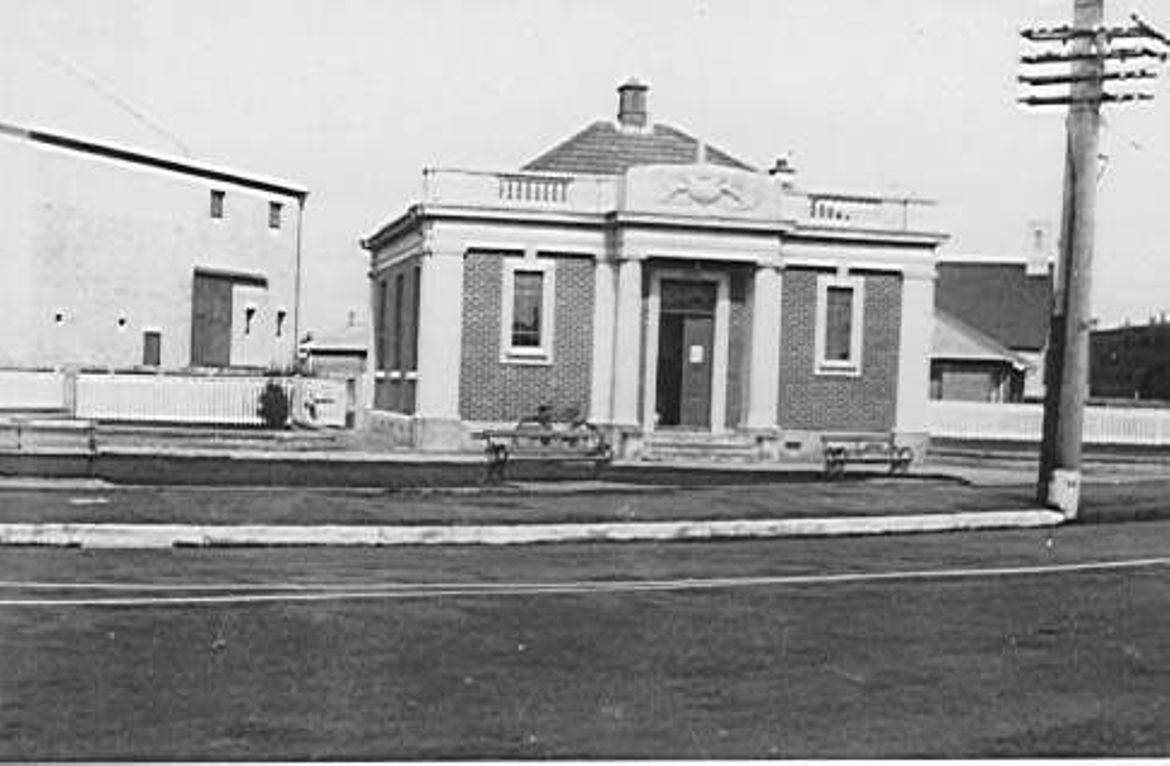 Photo of the Foxton Museum, from the collection of the Foxton Historical Society. Actual date of the photograph is unknown but is likely to date from the mid 1970s.